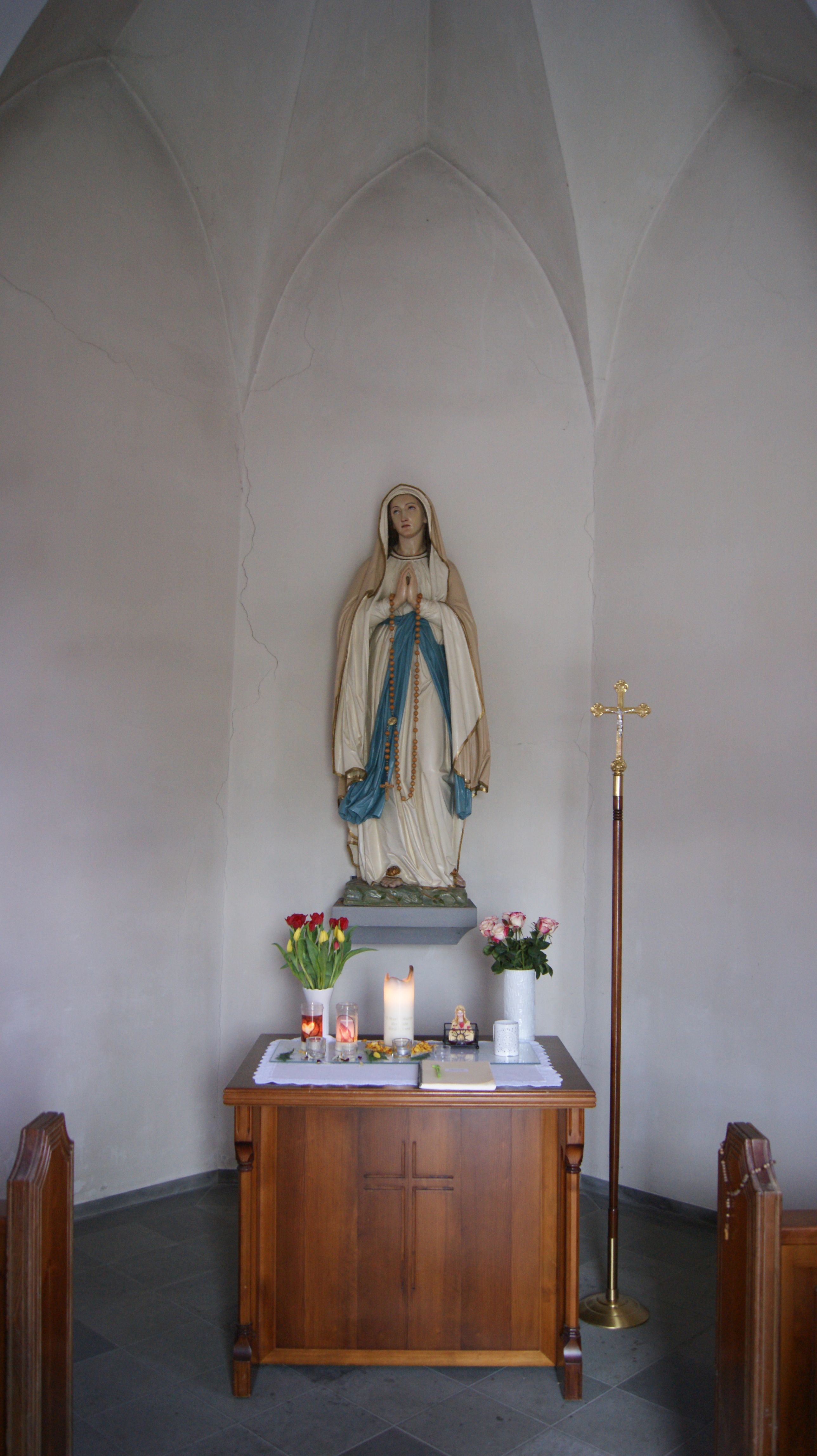 Altar Lourdeskapelle in Schwarzach in Vorarlberg, Austria. Built in 1890 and consecrated in 1897.